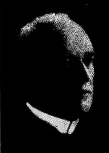 Late tycoon and minister August Ramsay 1859 - 1943